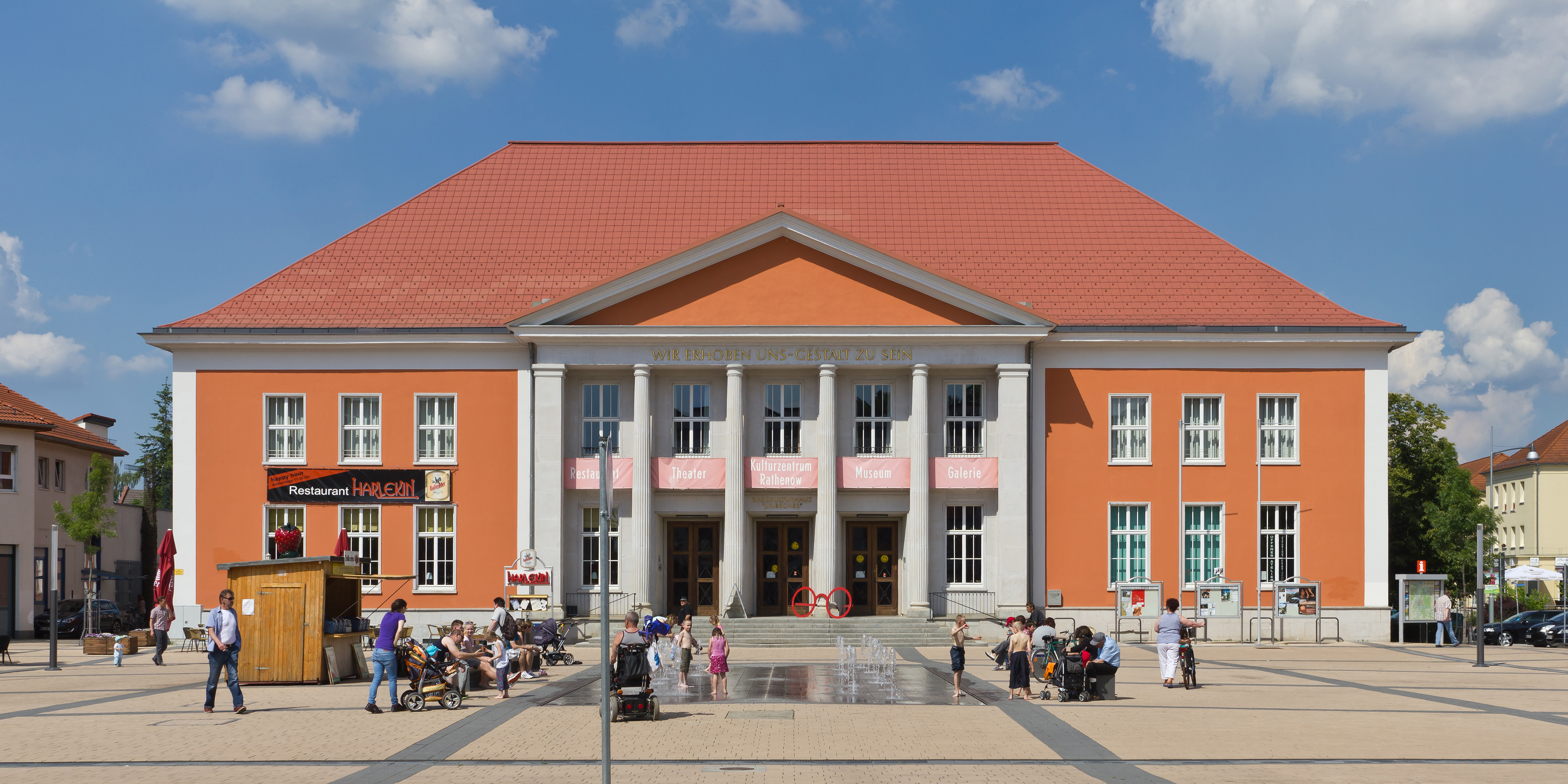 Rathenow, Brandenburg, Germany: Centre of Culture